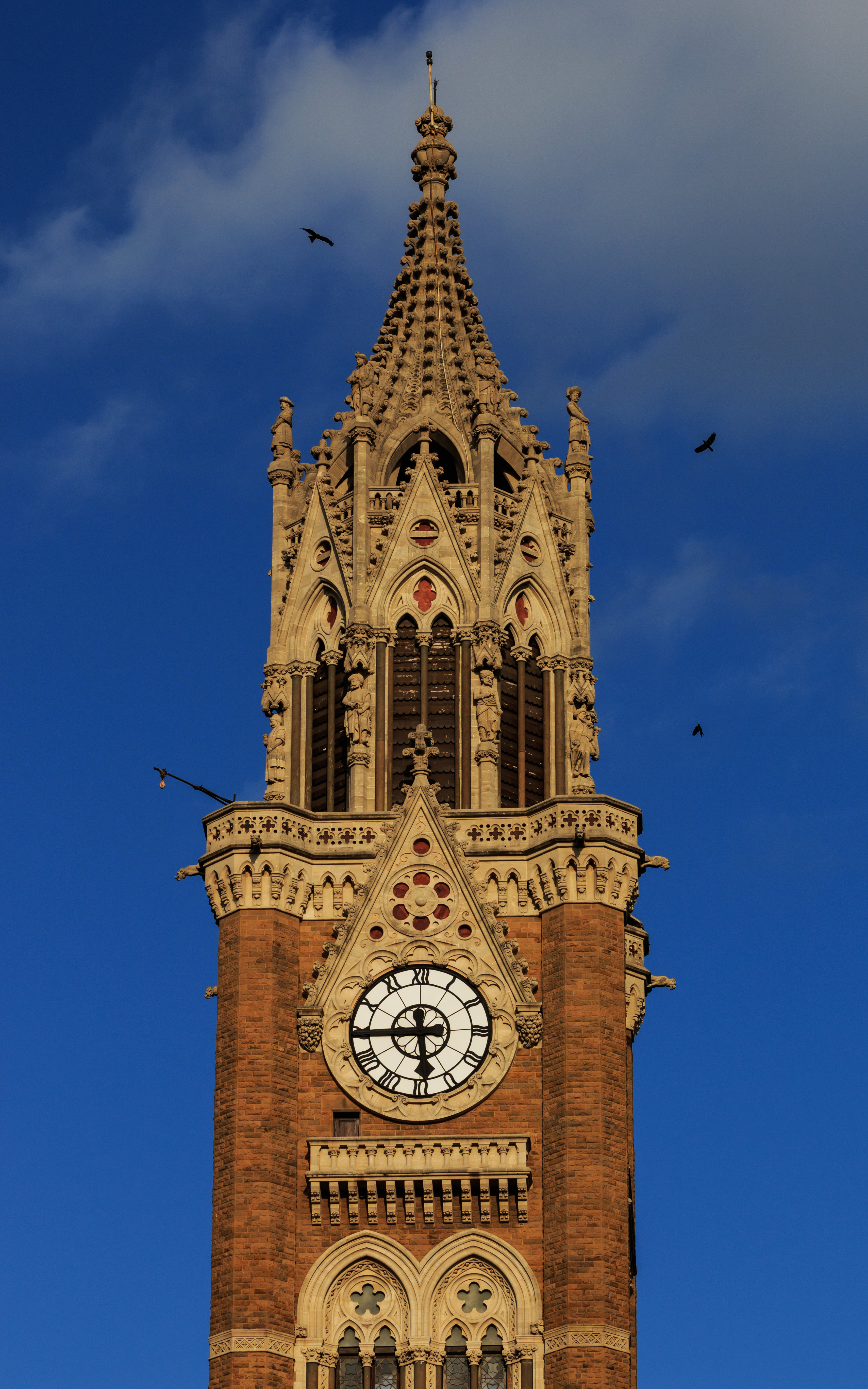 Historical building of the University in Mumbai, India